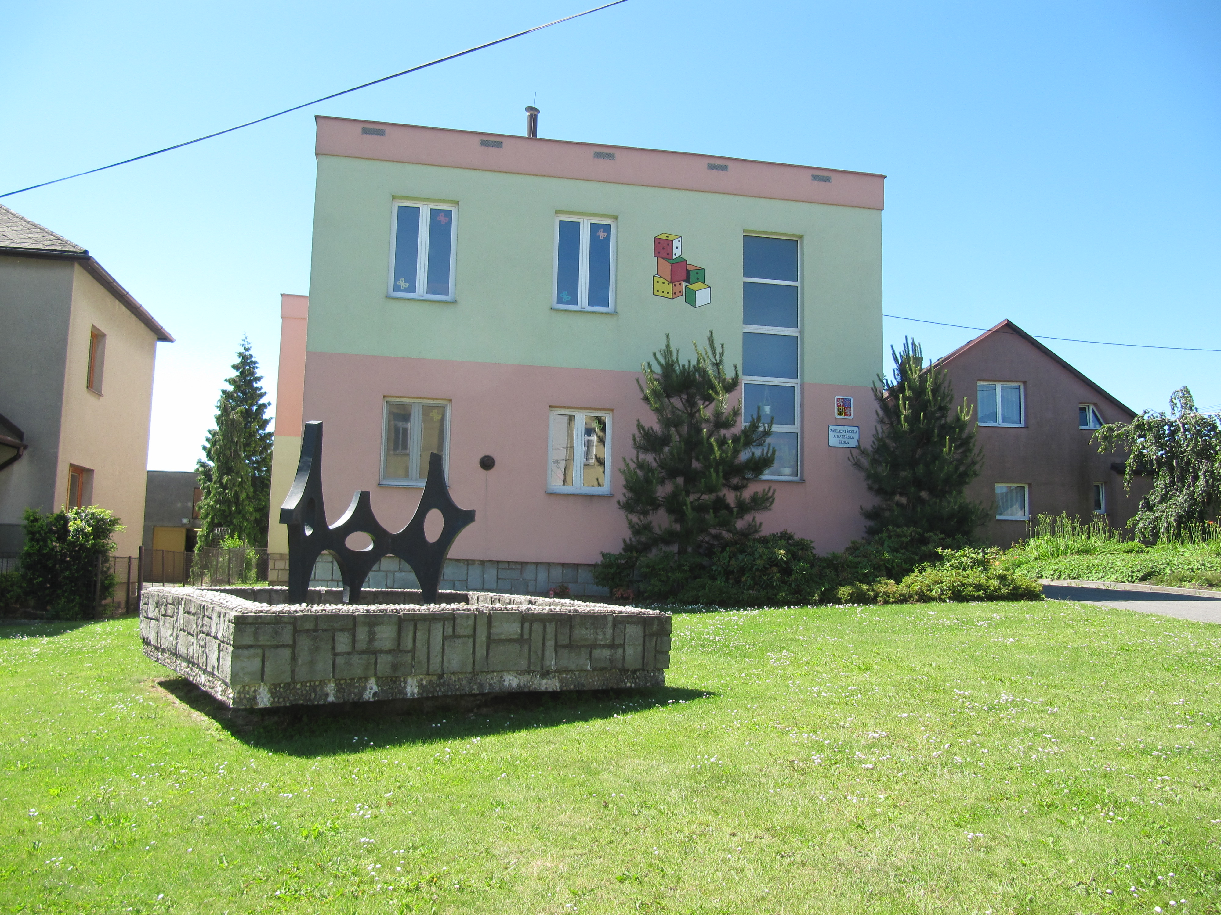 Tísek, Nový Jičín District, Czech Republic.